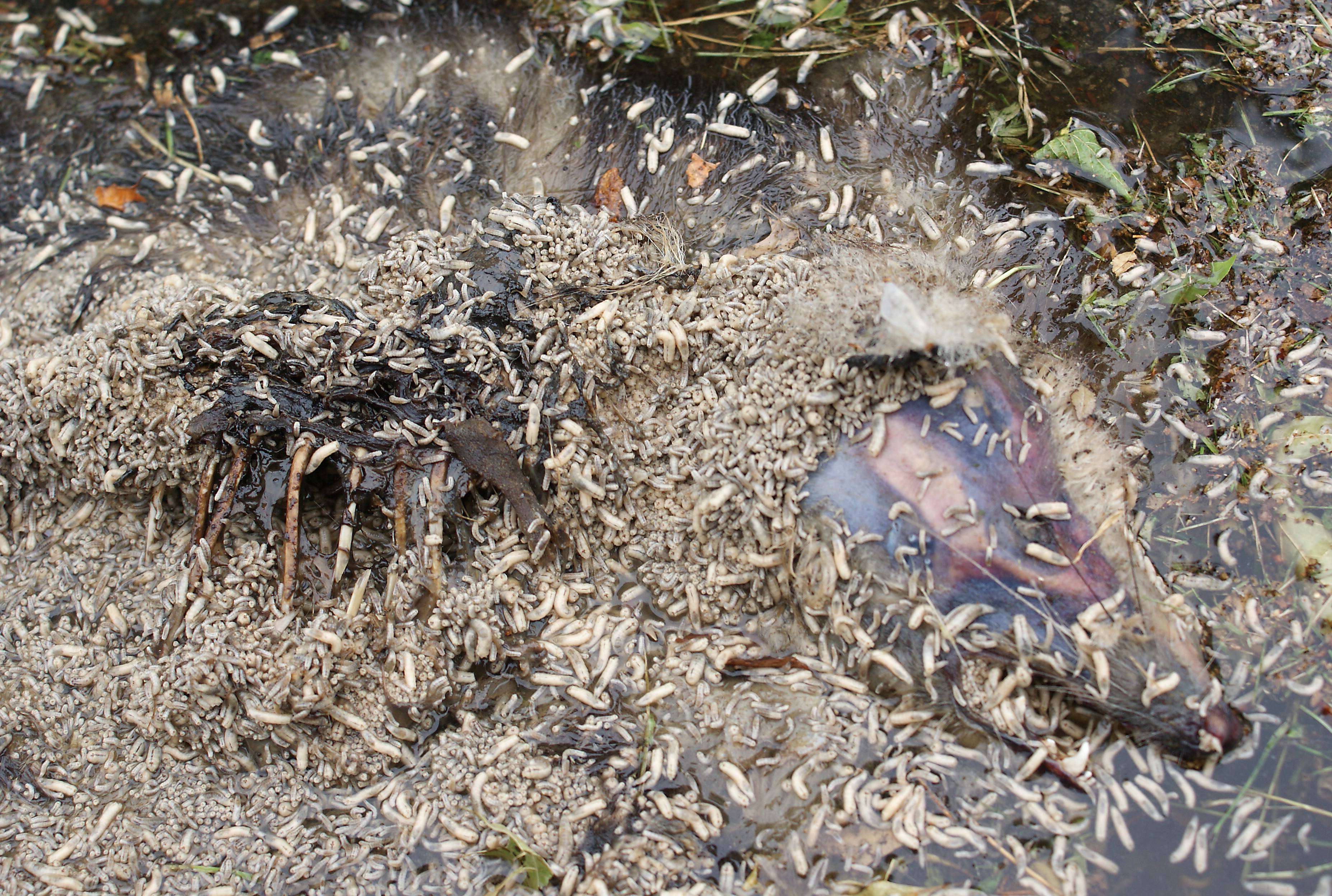 Decomposing Virginia Opossum (Didelphis virginiana), showing maggots.